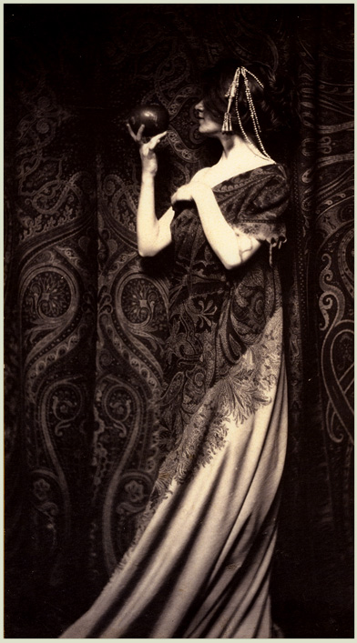 The Odor of Pomegranates (platinum print) by Zaida Ben-Yusuf